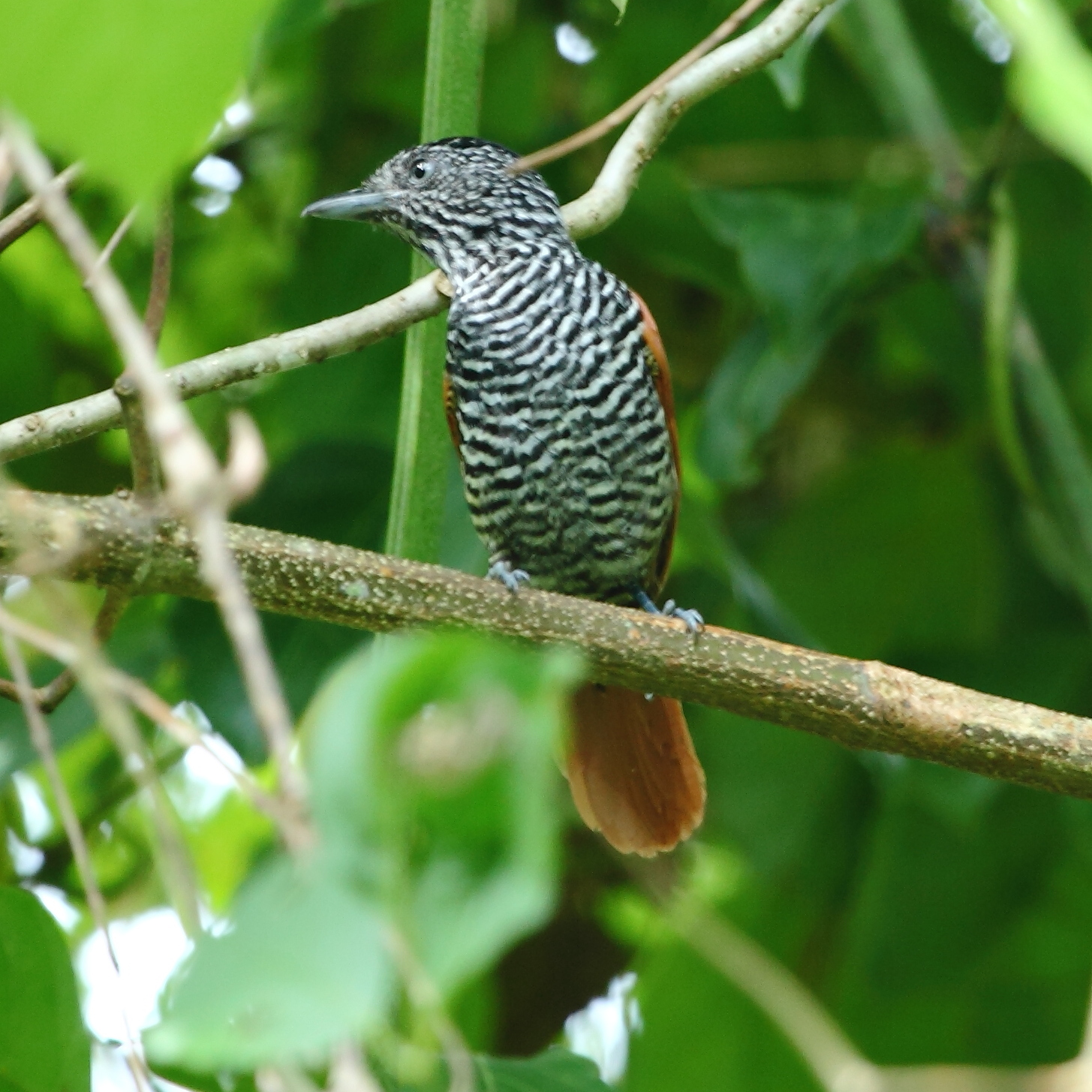 Chestnut-backed Antshrike (male) at Apiacás - MT - Brazil